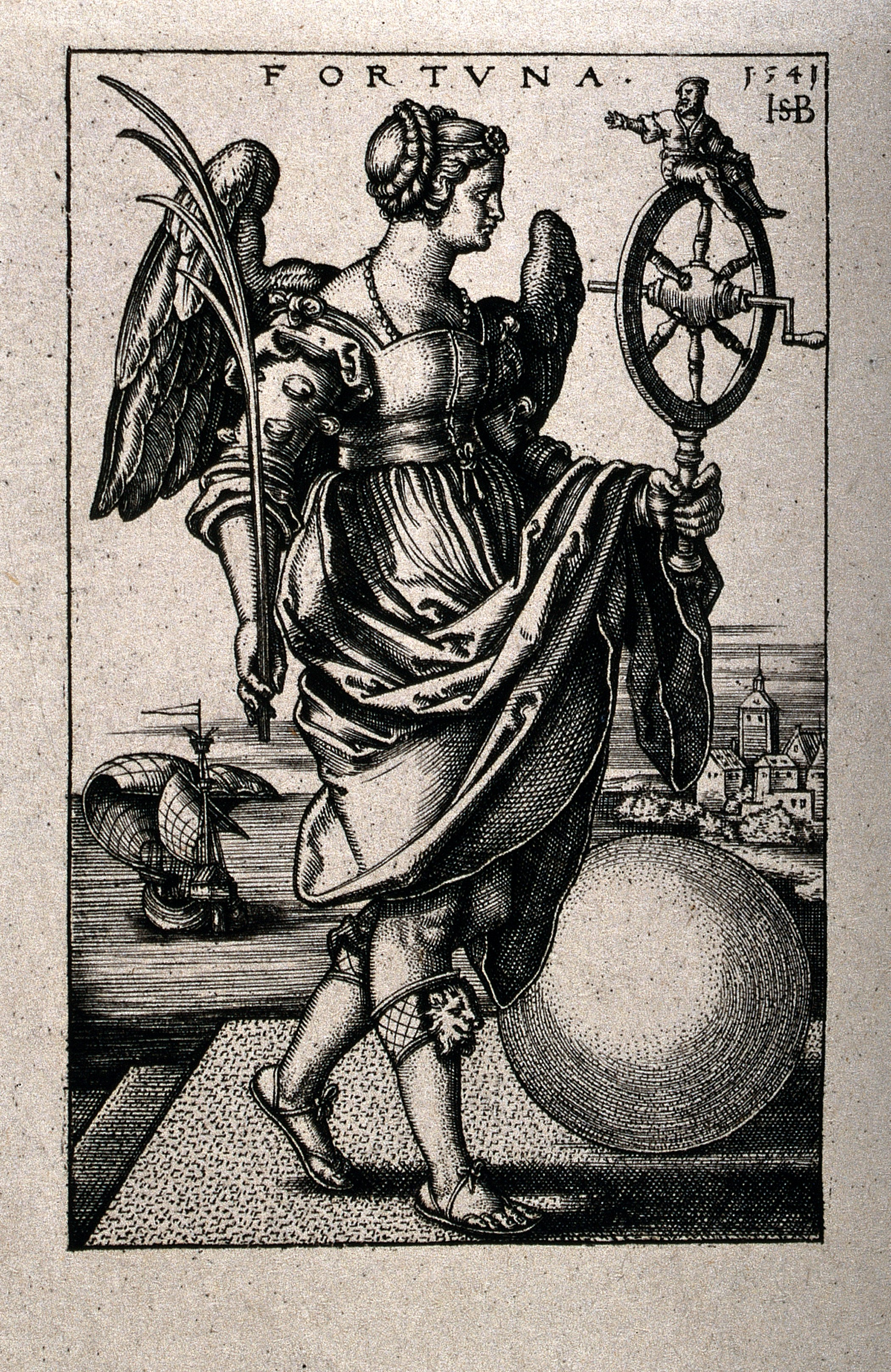 A winged woman holding a palm branch in her right hand and a spinning wheel with a small man perched on top in her left, walks past a globe, while a ship with billowing sails is passing by in the background; representing fortune. Heliogravure of an engraving by H.S. Beham, 1541. Iconographic Collections Keywords: Hans-Sebald Beham